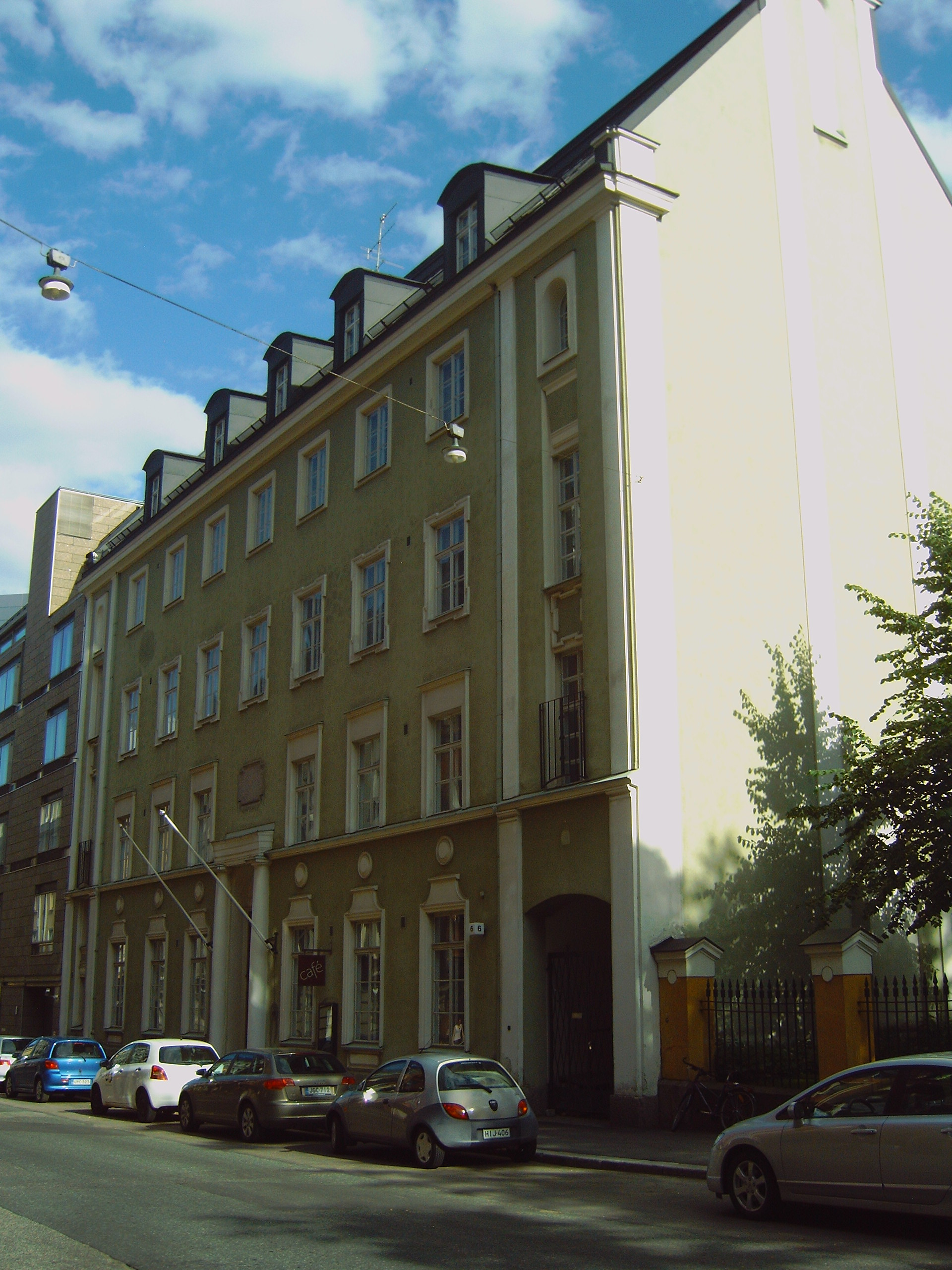 House of Science and Letters in Helsinki, Finland